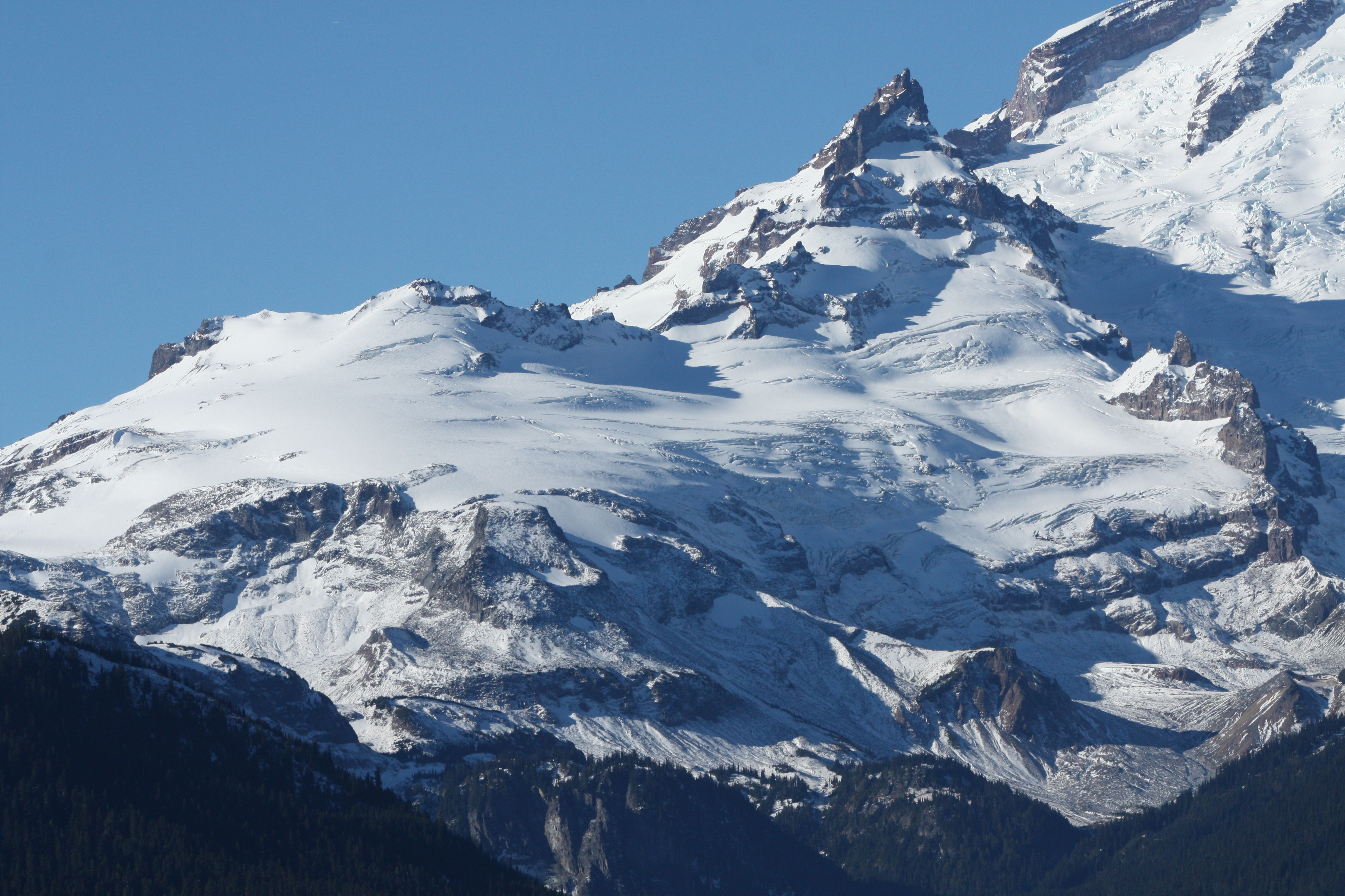 Little Tahoma (right, 11138 feet) and Whitman Crest (left, 9364 feet) with Frying Pan Glacier below.